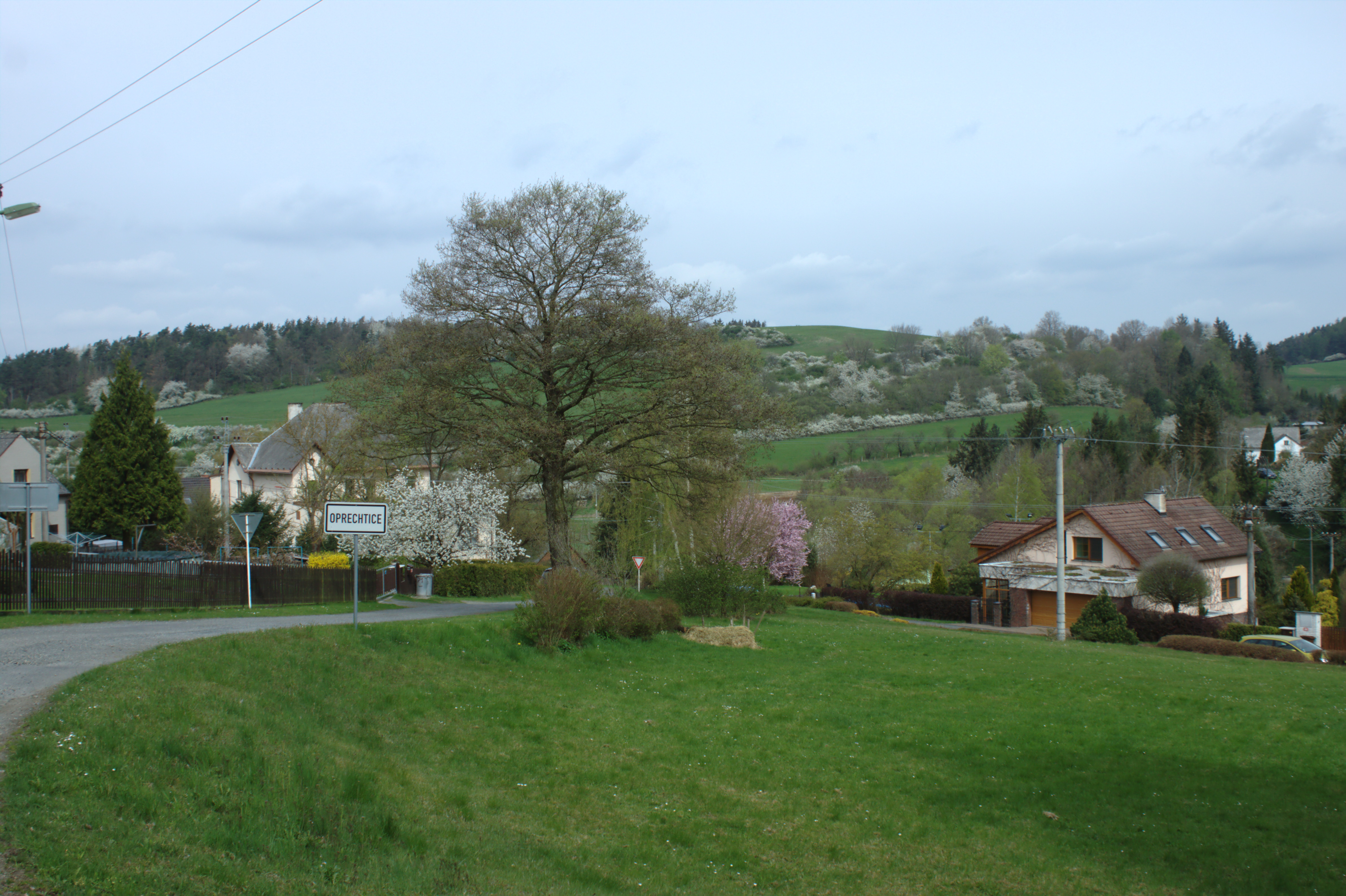 View of the village of Oprechtice from south, Plzeň Region, CZ